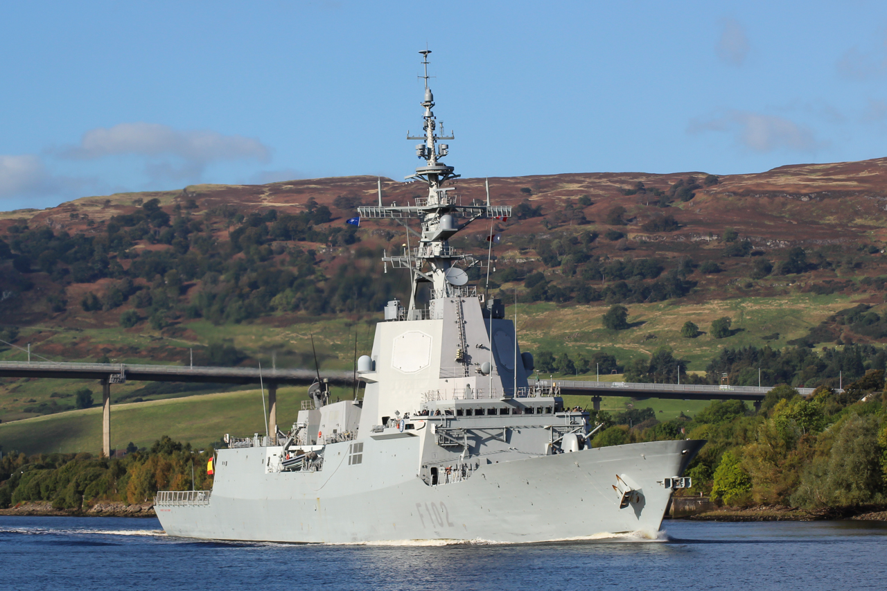 F102 Almirante Juan de Borbon heading to Glasgow for the weekend before participating in Joint Warrior 16-2